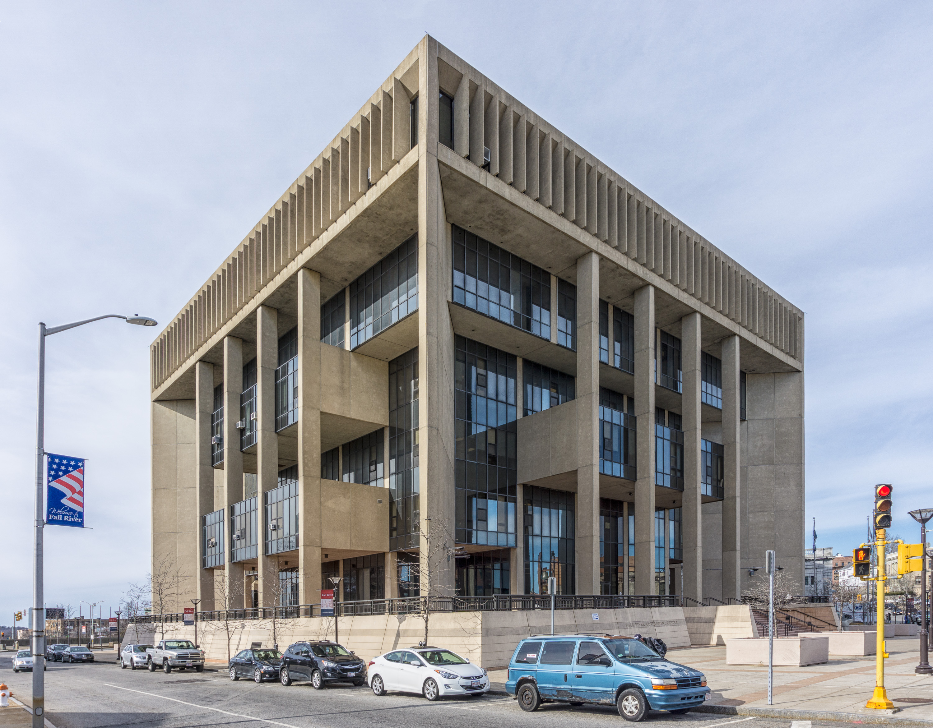 Government Center is the City Hall for Fall River, Massachusetts.